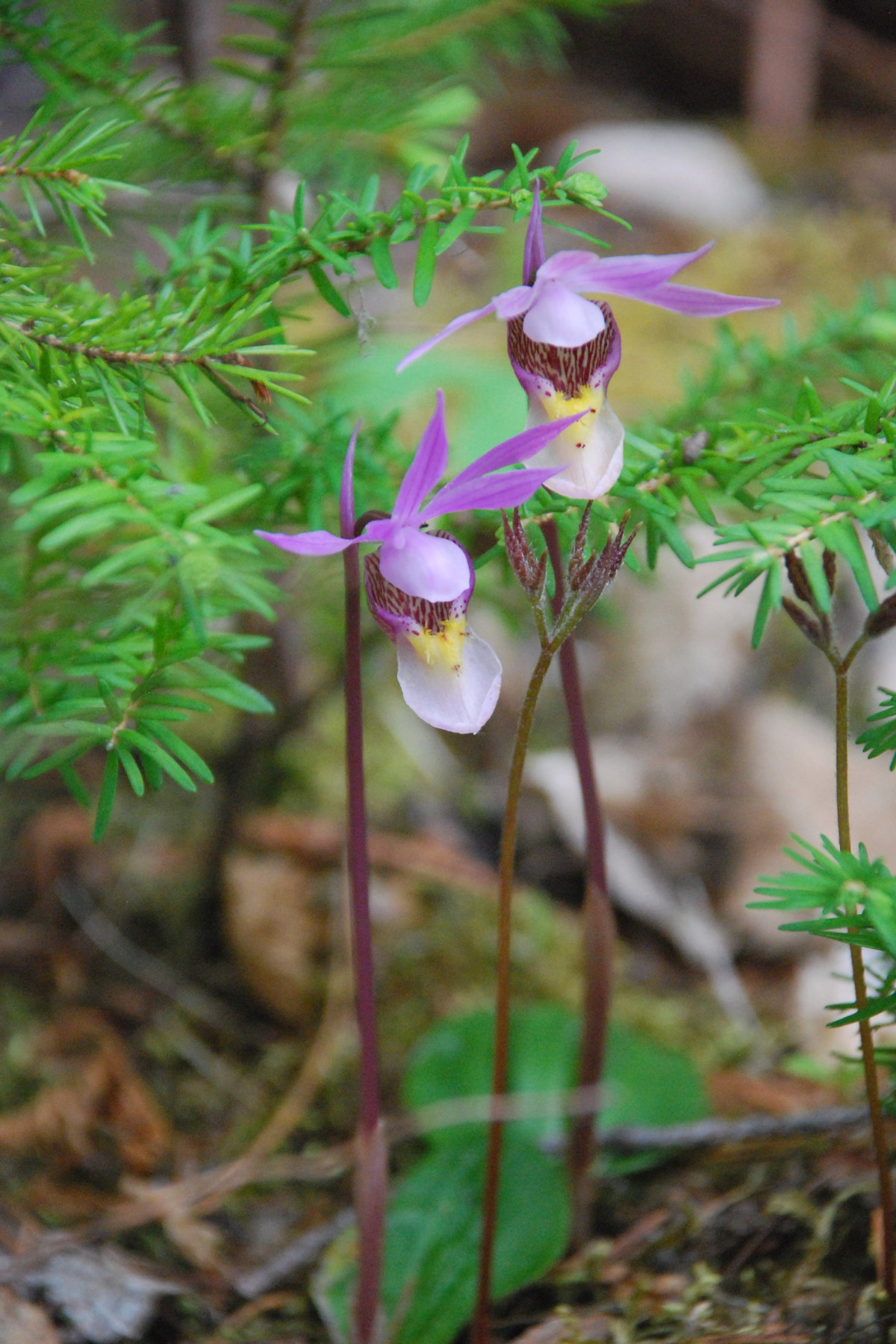 Scientific Name: Calypso bulbosa (L.) Oakes – Common Name: Calypso Orchid – Certainty: positive (notes) – Location: Canadian Rockies; Wells Gray Provincial Park; Edgewood Blue – Date: 20080528 – Taken (badly) with a friend's DSLR.